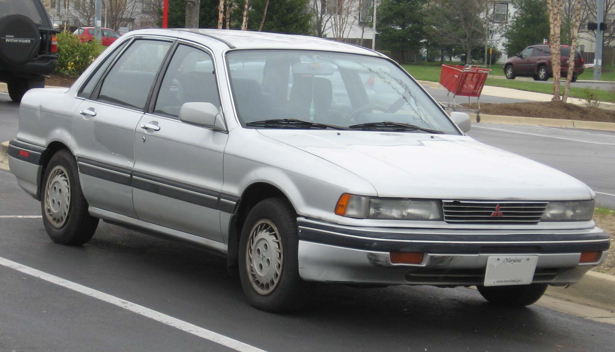 1987-1993 Mitsubishi Galant photographed in USA.